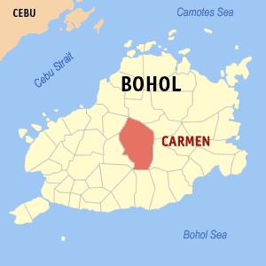 Map of Bohol showing the location of Carmen